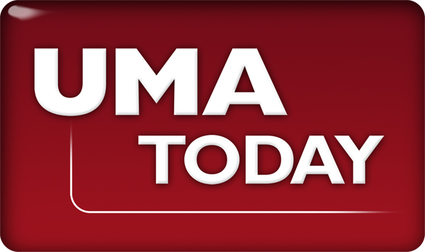 UMA Today logo